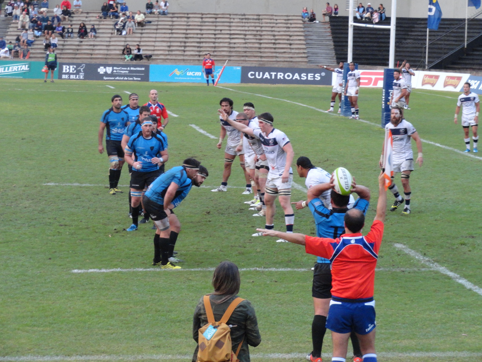 Uruguay's Teros vs United States rugby union match at the 2016 Americas Rugby Championship.